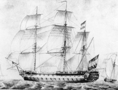 De Ruyter (1808) a ship of the line with 80 guns.